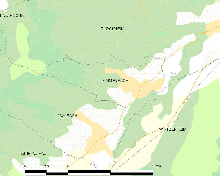 Map of French municipality